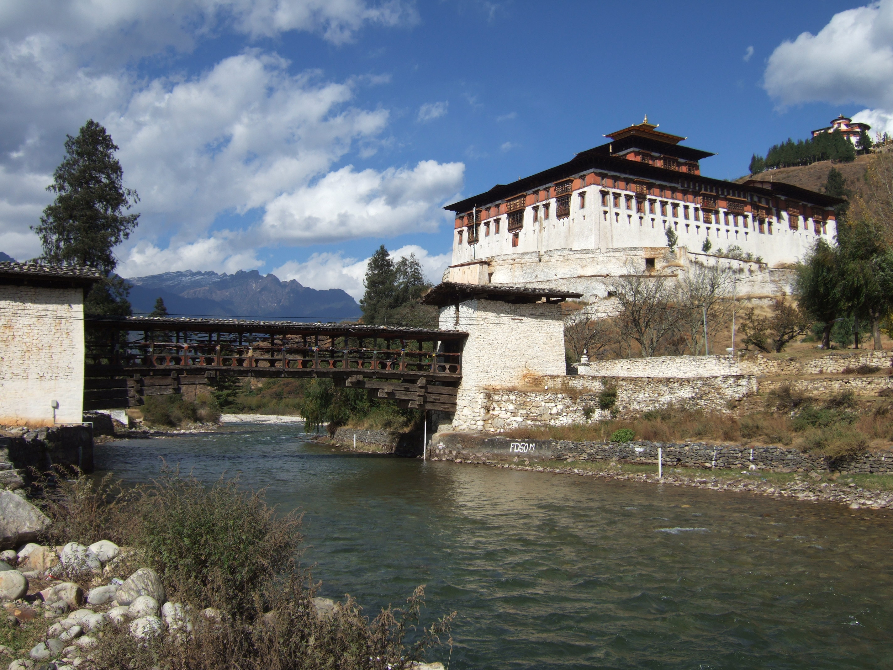 Rinpung Dzong(རིན་སྤུང་རྫོང) in Paro Bhutan with a cantilever bridge over the Paro Chu river in the foreground and the National Museum of Bhutan (Ta Dzong) on the hill in the background.